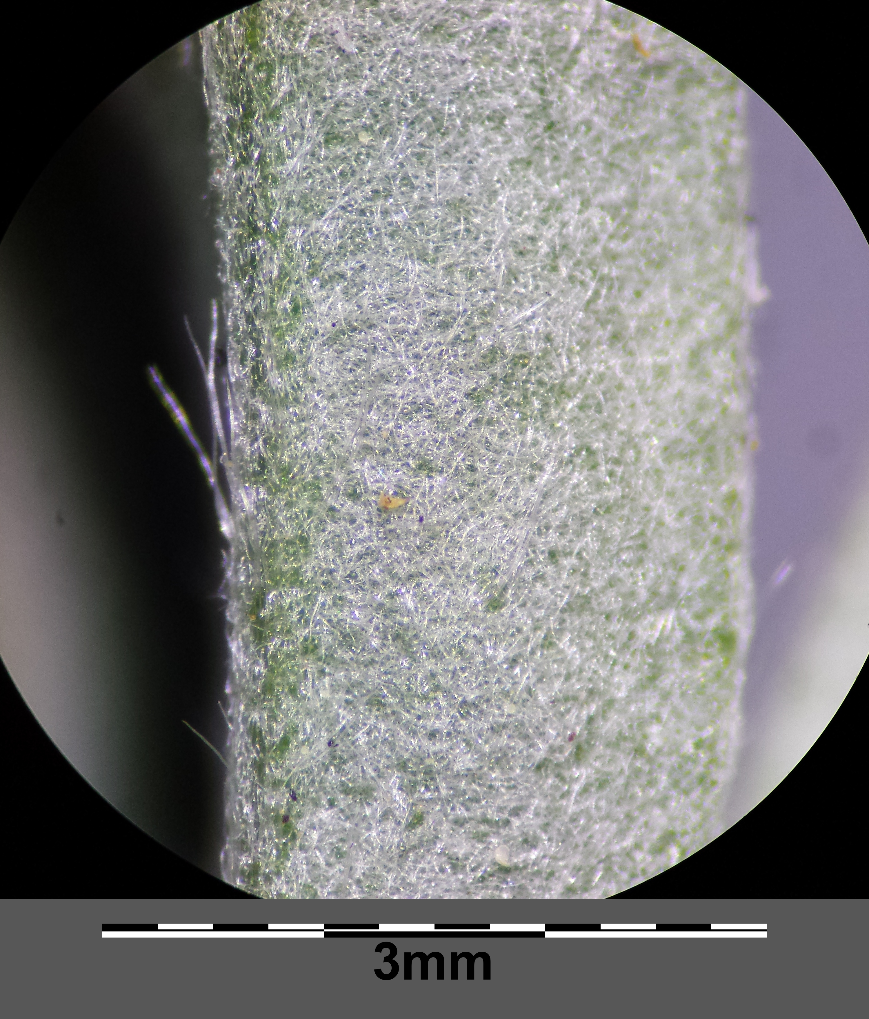 Bottom side of leaf Taxonym: Helianthemum canum ss Fischer et al. EfÖLS 2008 ISBN 978-3-85474-187-9 Location: Blosenberg near Winzendorf, district Wiener Neustadt, Lower Austria - ca. 380 m a.s.l. Habitat: dry grassland